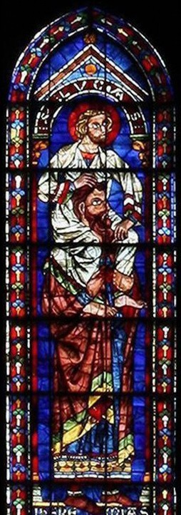 South rose window of Cathédrale Notre-Dame de Chartres with Gothic stained glasses.